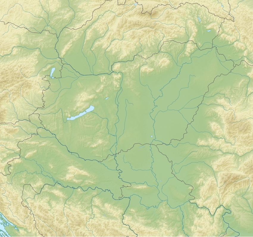 Location map of Pannonian_Plain. Projection: Equirectangular projection, strechted by 145.0%. Geographic limits of the map: N: 49.5° N S: 44.0° N W: 15.0° E E: 23.5° E GMT projection: -JX14.393333333333334cd/13.504333333333333cd GMT region: -R15.0/44.0/23.5/49.5r GMT region for grdcut: -R15.0/44.0/23.5/49.5r Relief: SRTM30plus. Made with Natural Earth. Free vector and raster map data @ .